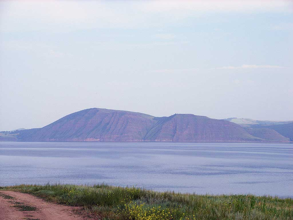 Krasnoyarsk Reservoir near Novosyolovo settlement